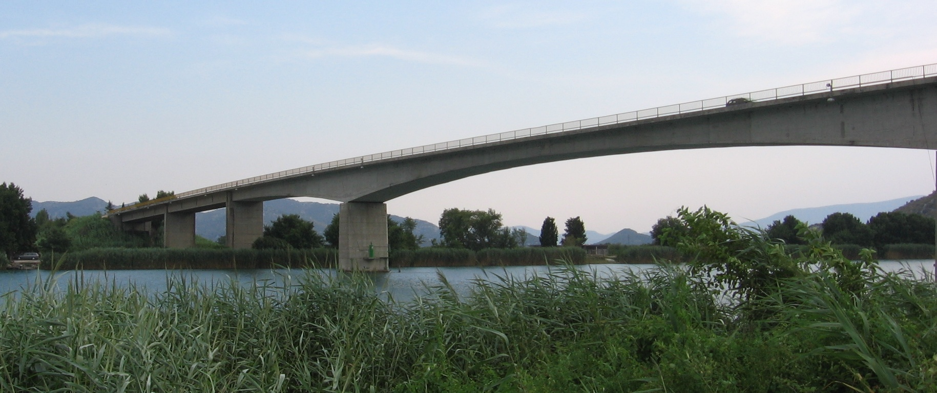 Croatia, road #8 near Rogotin: bridge over Neretva River